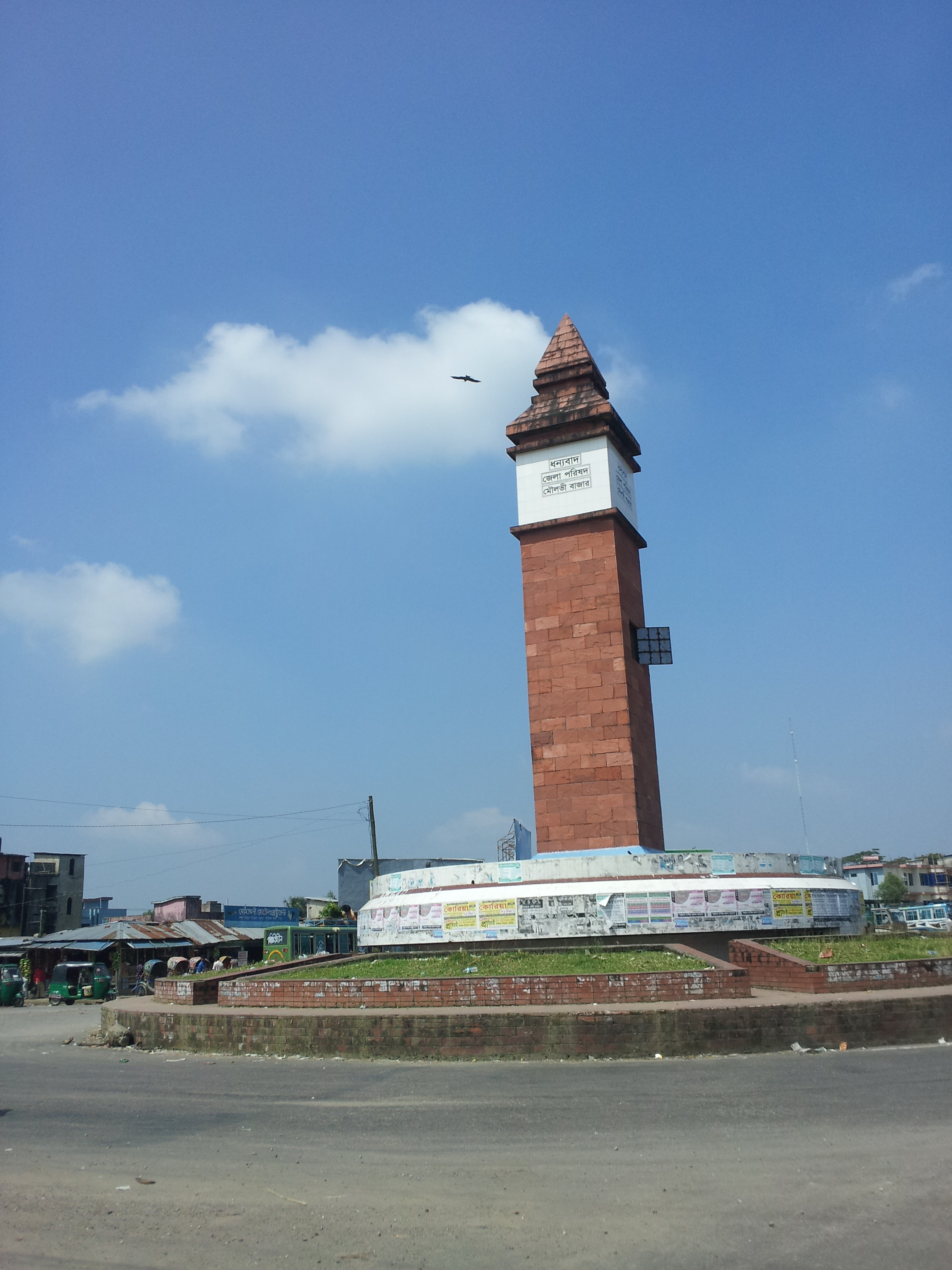 The welcome square of Maulvi Bazar District of Bangladesh. It is located on the Dhaka-Sylhet highway